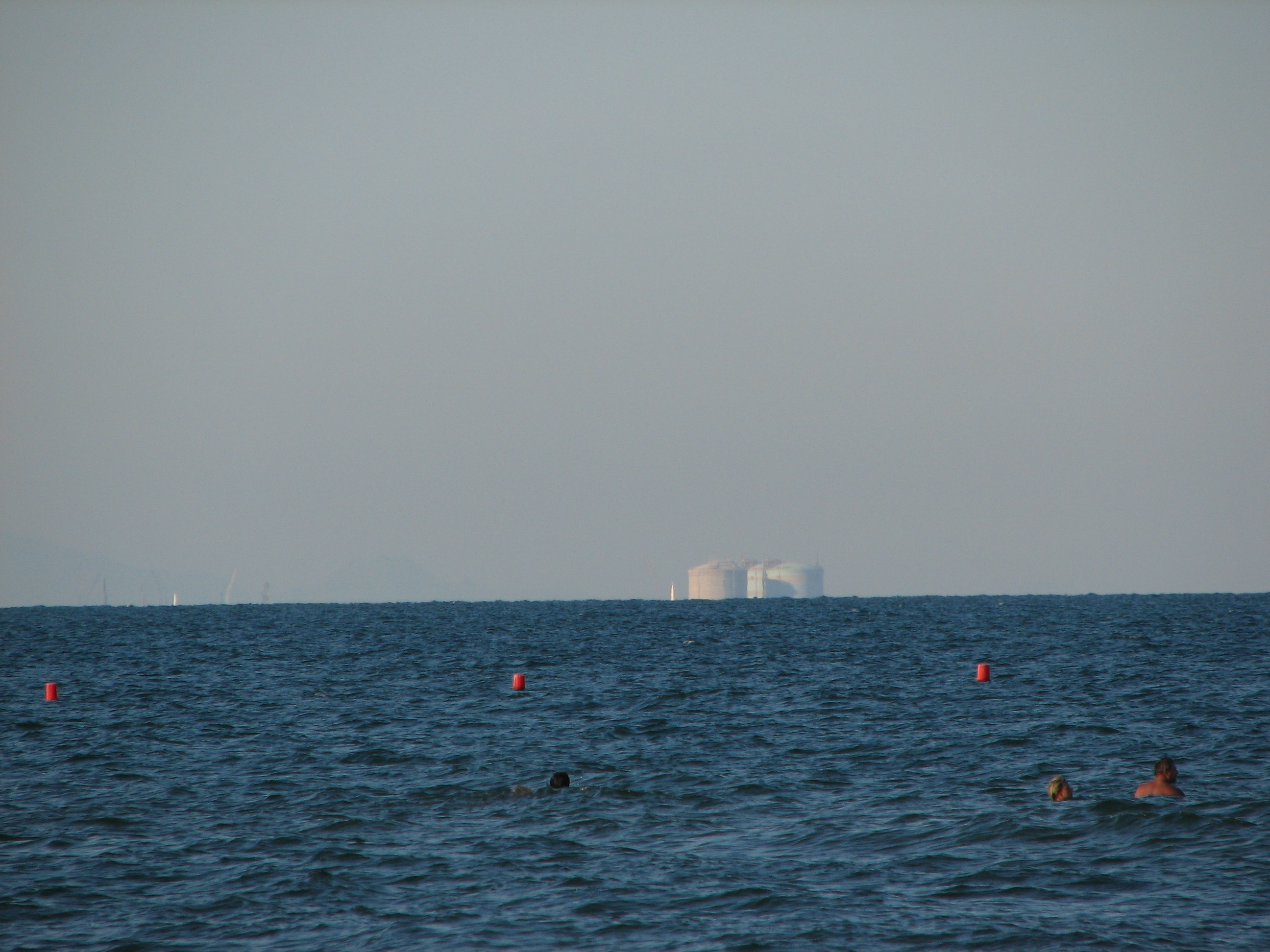 A view of the horizon from the coast of Spain. In which the Earth's curvature can be seen. Tanks are on a pier at Port de Sagunt (Saggas) at a distance of about 20 kilometers from Valencia.